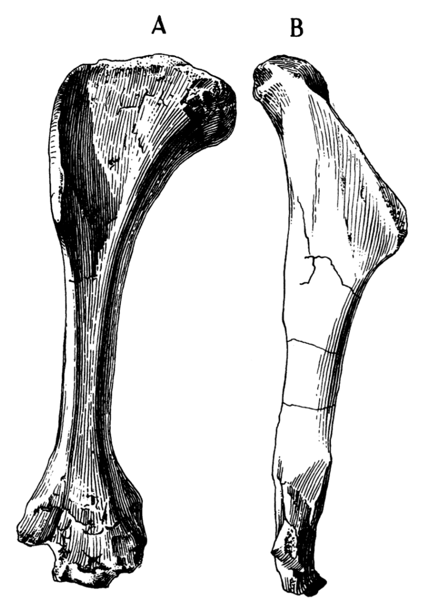 Fig. 8. Right humerus, Alectrosaurus olseni. No. 6368, A.M.N.H. A, front view; B, lateral view. One-fourth natural size.